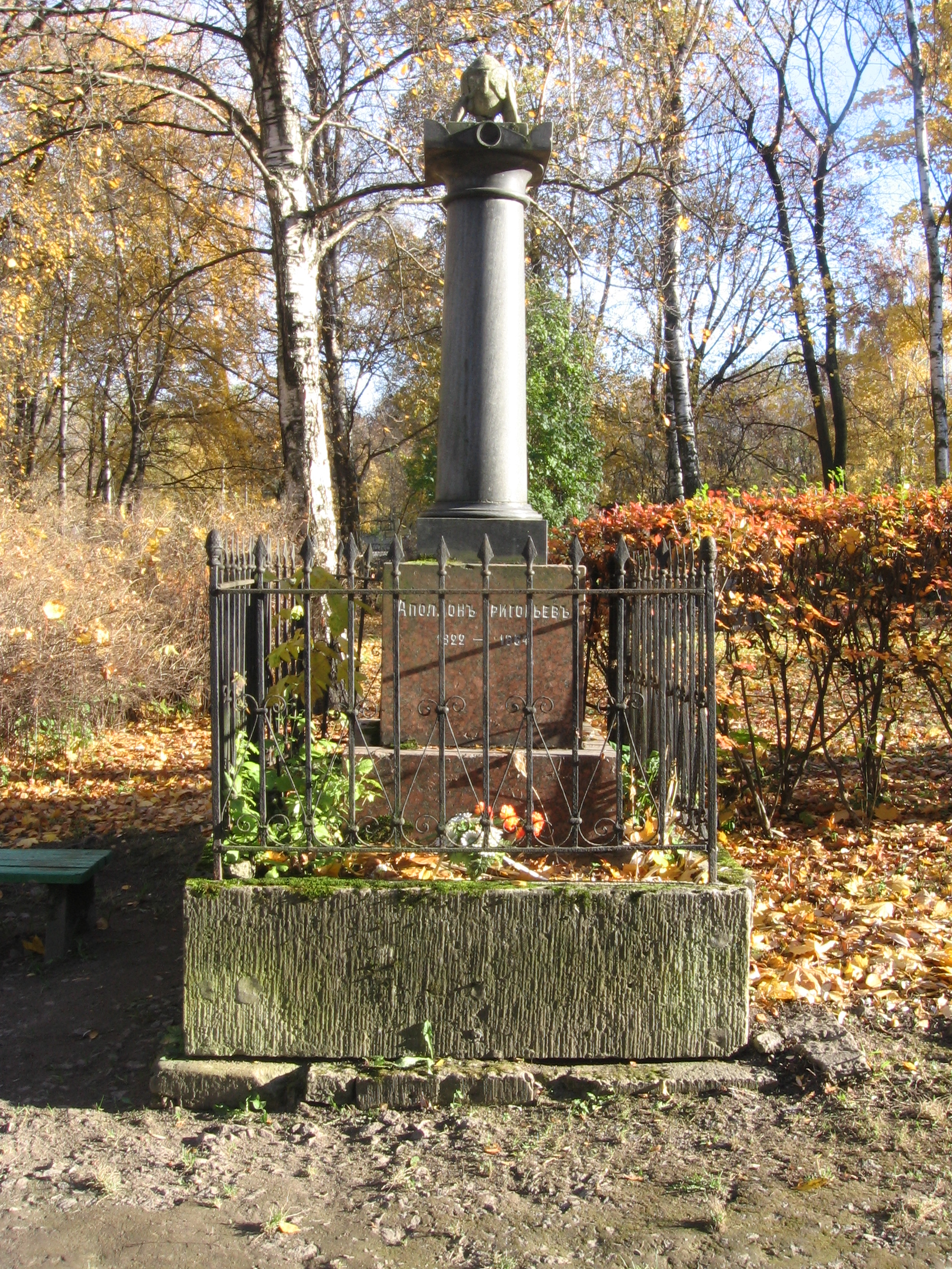 Grave of Apollon Grigoriev